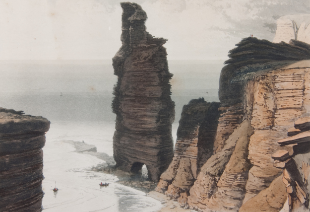 Daniell Oldman (1769‑1837), painting the Old Man of Hoy some time around 1817.